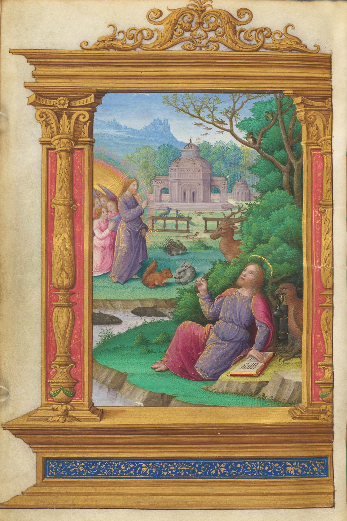 Image depicting St. John on Patmos receiving the Revelation. Bible. Gospels. Selections. Latin. Gospel readings for Holy Week, manuscript, ca. 1510-ca. 1515. MS Typ 252, Houghton Library, Harvard University